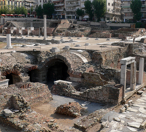 The Roman forum of Thessaloniki.